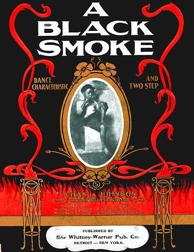 A Black Smoke, 1902